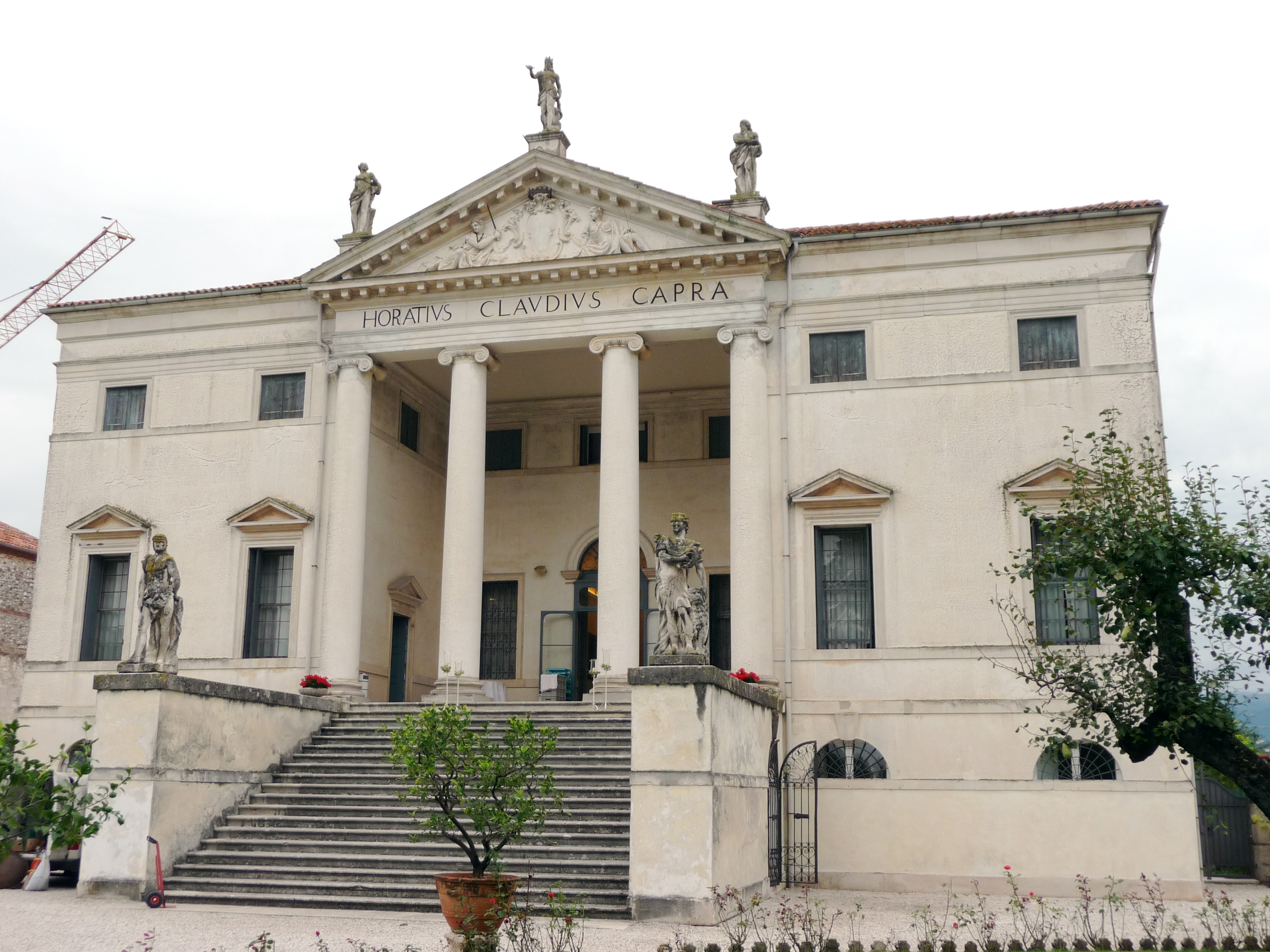 Villa Capra Bassani Sarcedo, province of Vicenza, Italy. Build in 1764 by earl-architect Ottavio Bertotti Scamozzi, it's an example of palladian style.